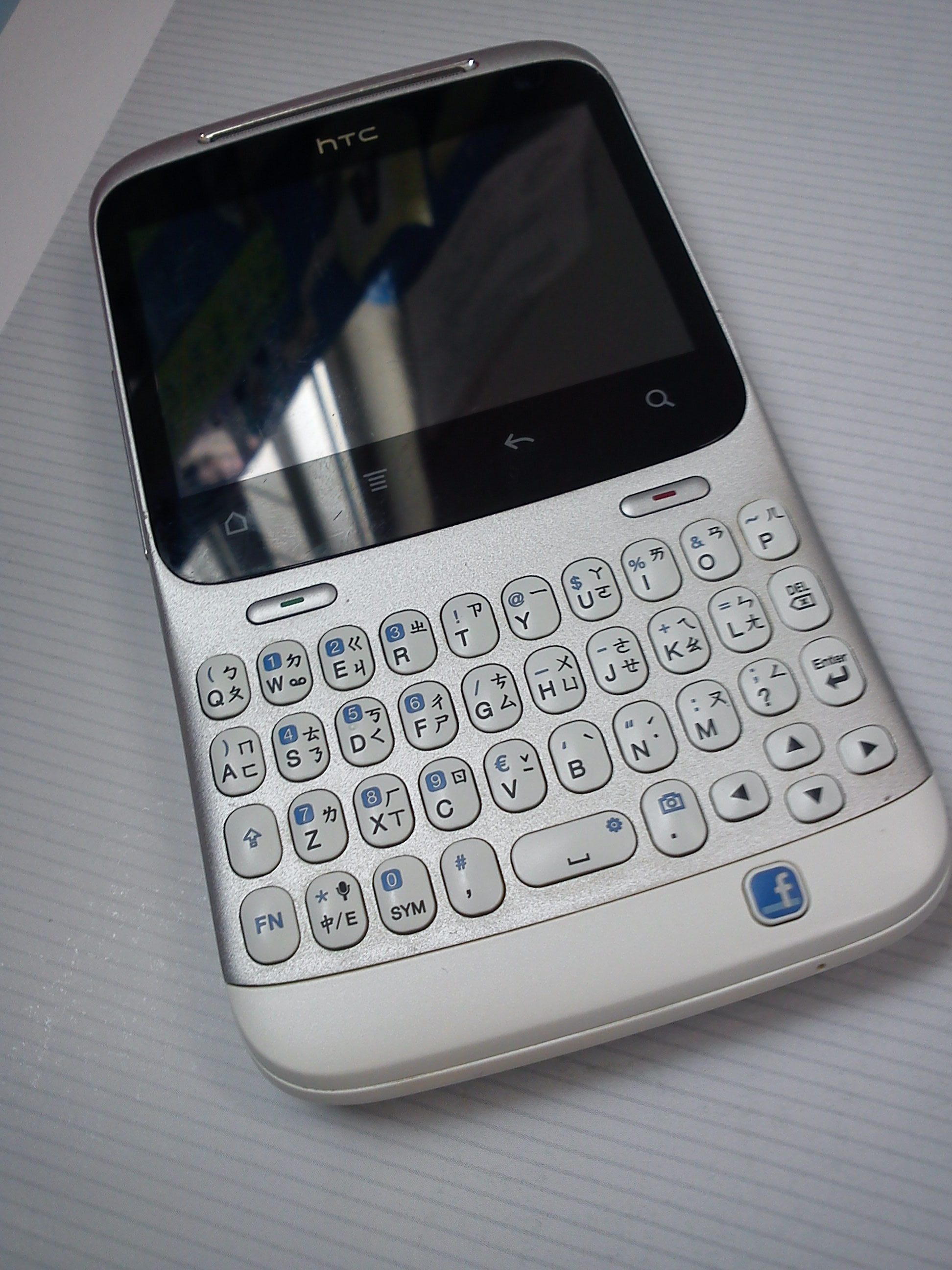 HTC ChaCha